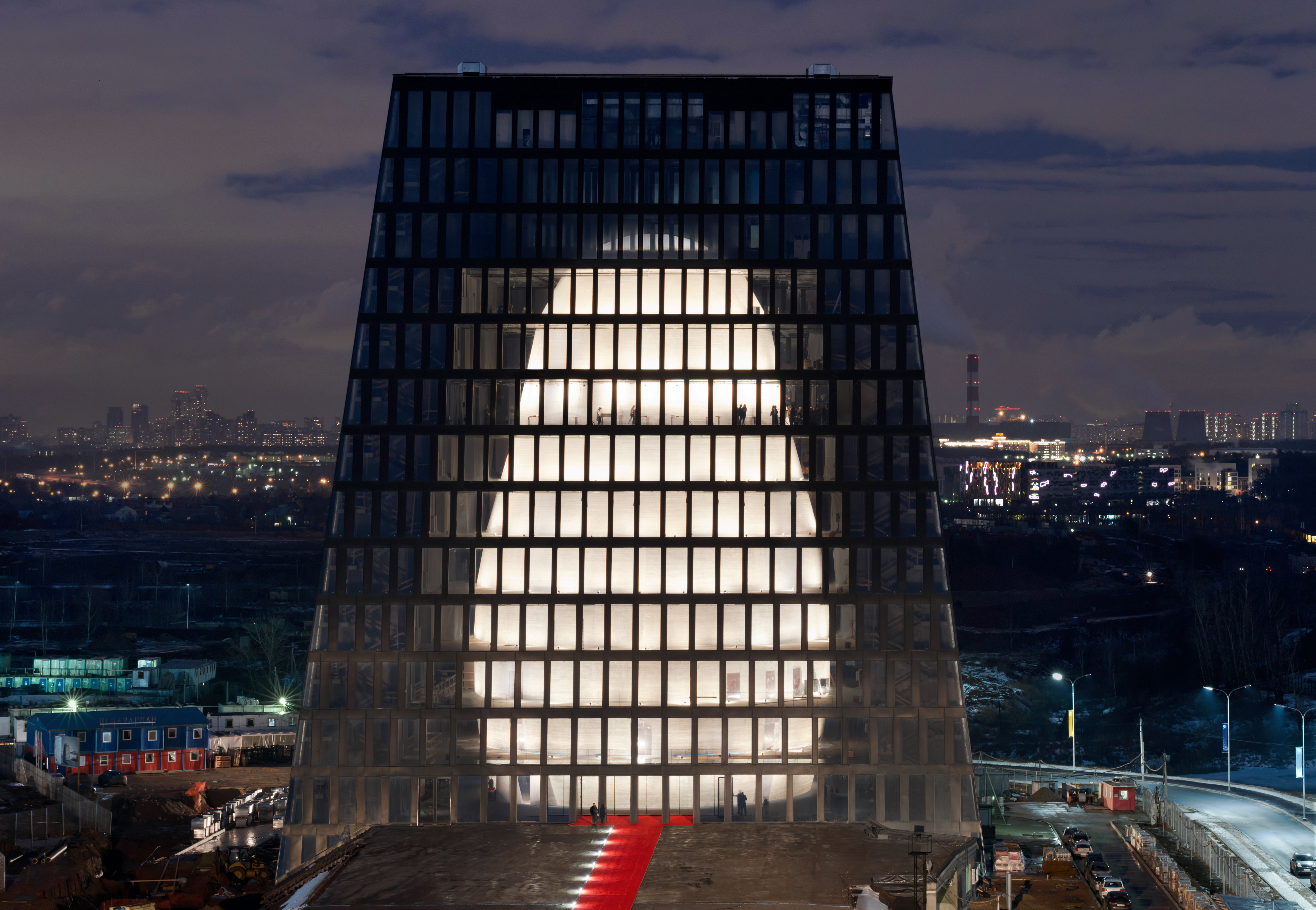 МАТРЕКС - главное общественное здание "Инновационного центра Сколково".